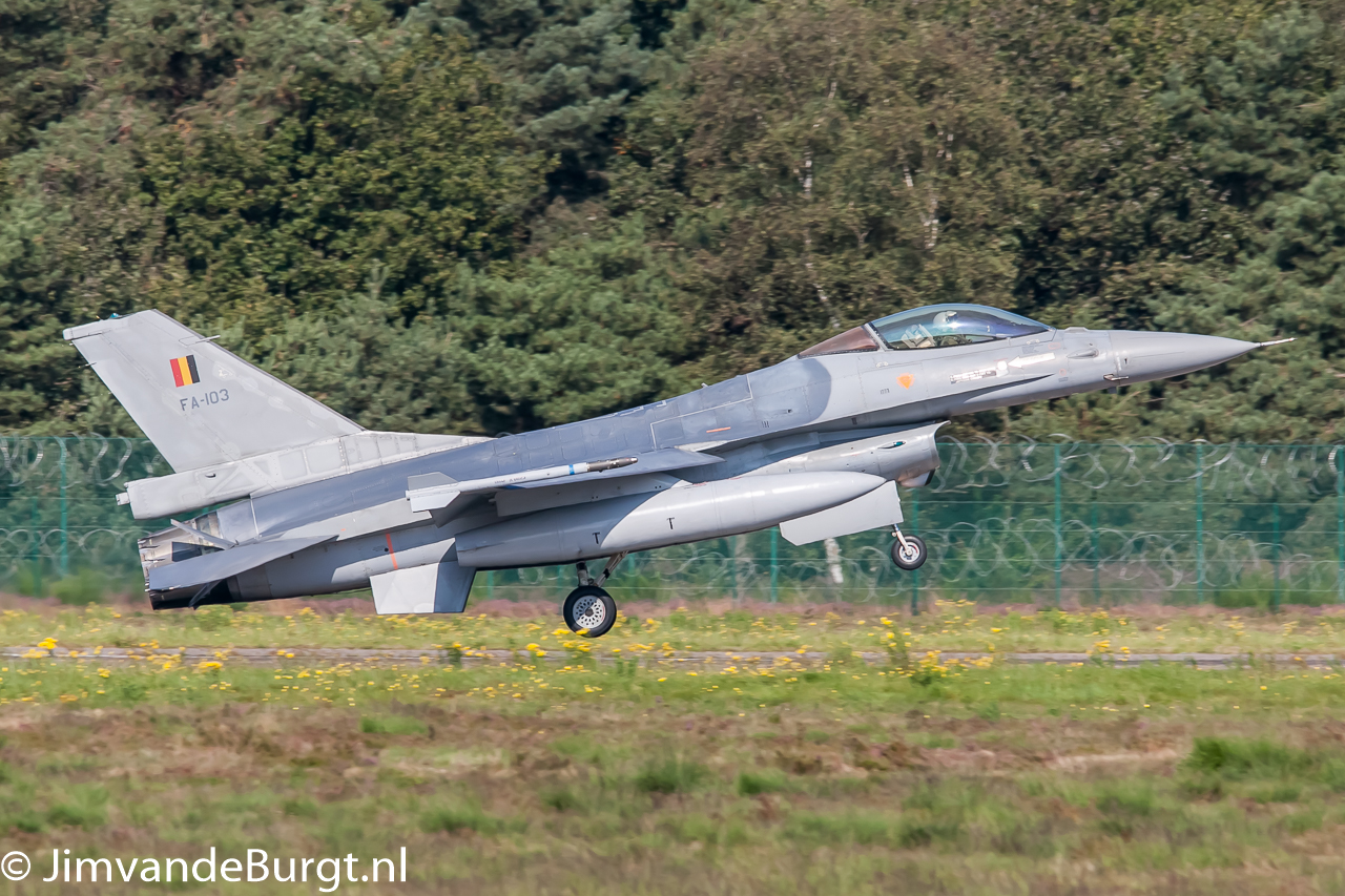 Kleine Brogel Air Base